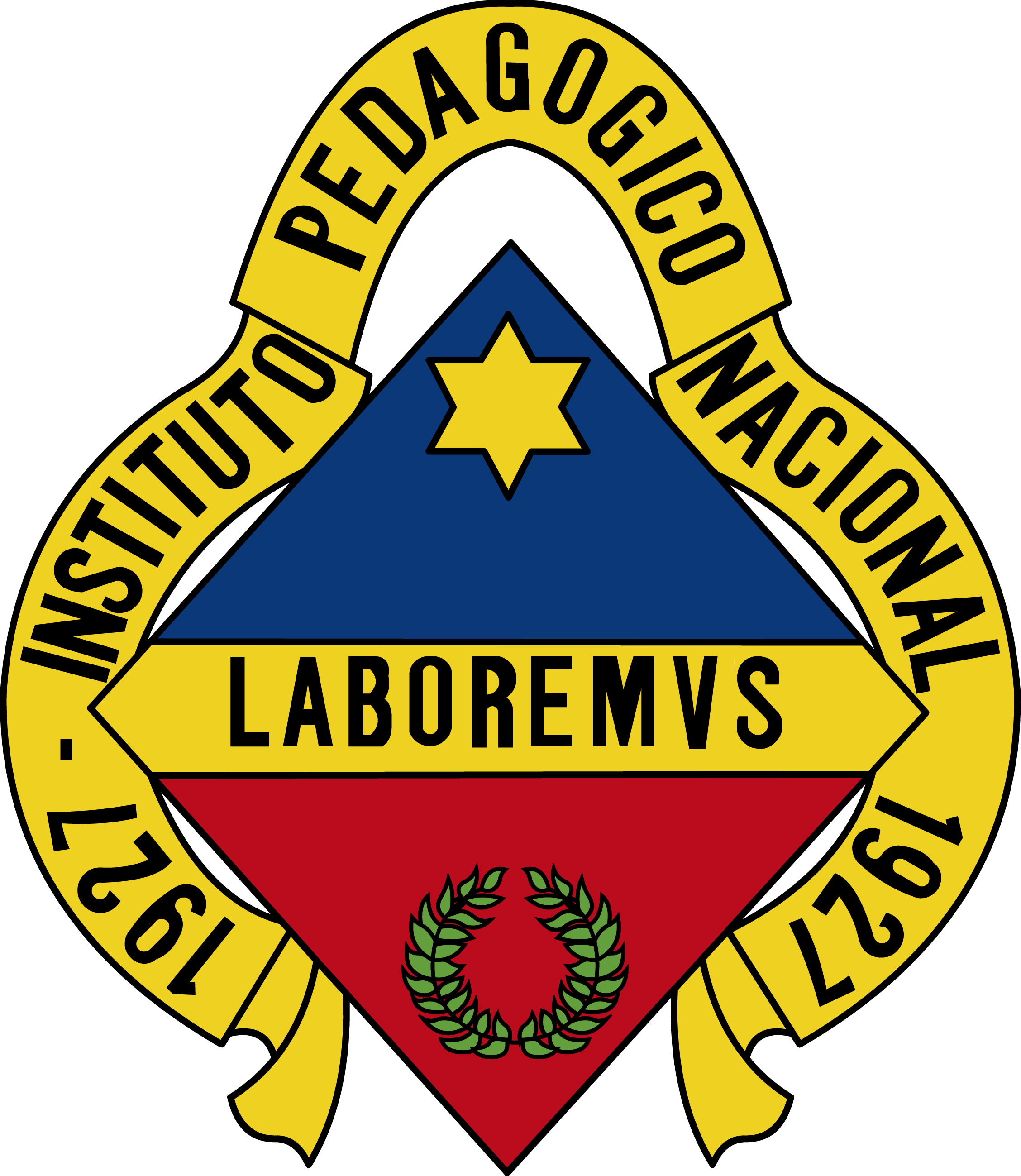 National Pedagogical Institute coat of arms